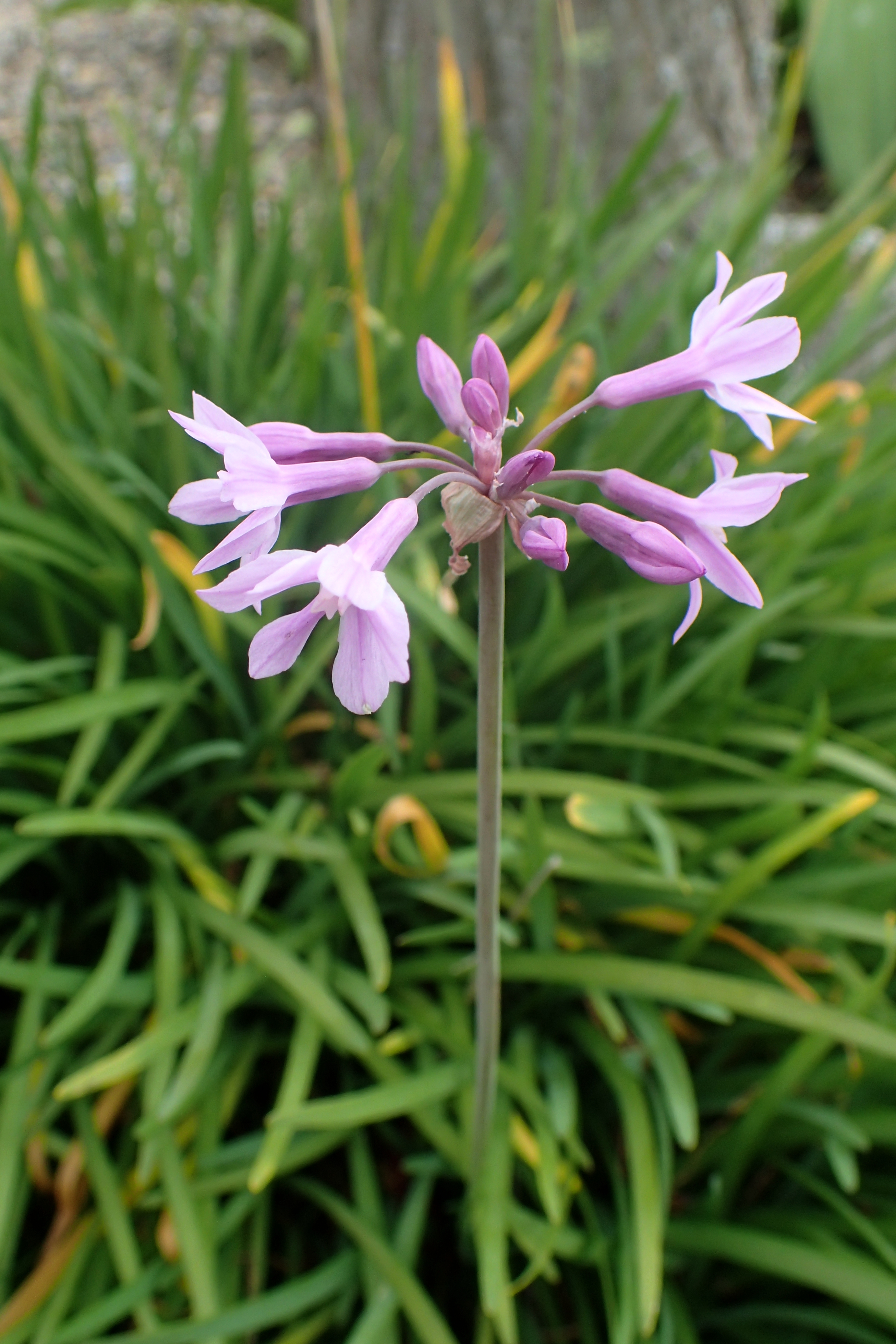 Tulbaghia violacea var. robustior in Auckland Botanic Gardens